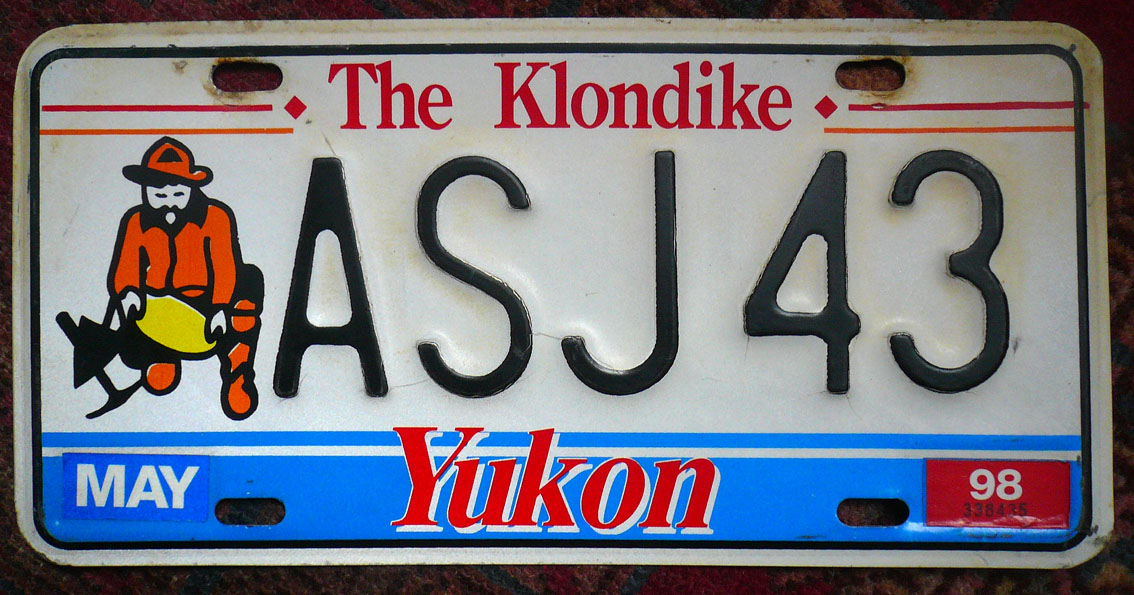 license plate yukon 1998